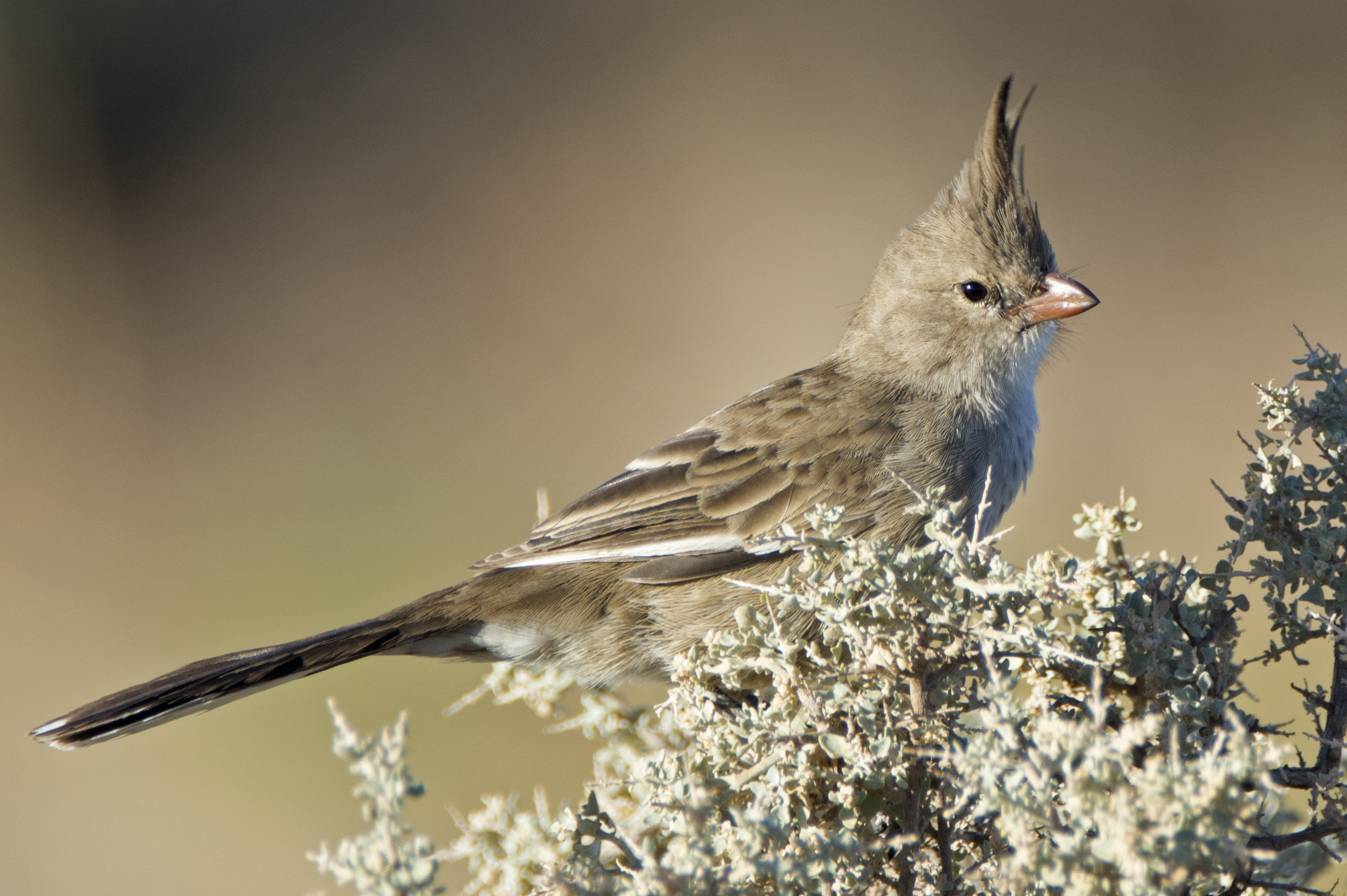 Taken near dump yard at Pt Augusta